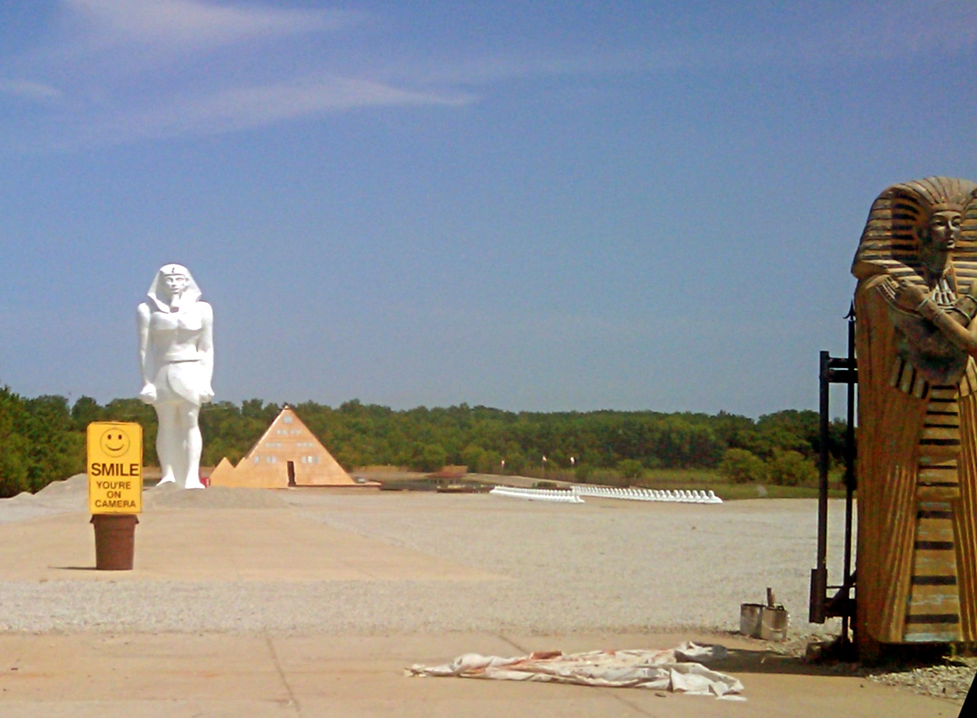 We passed by the gold-plated Onan's Gold Pyramid House in Wadsworth today. Quite a sight. Info here.